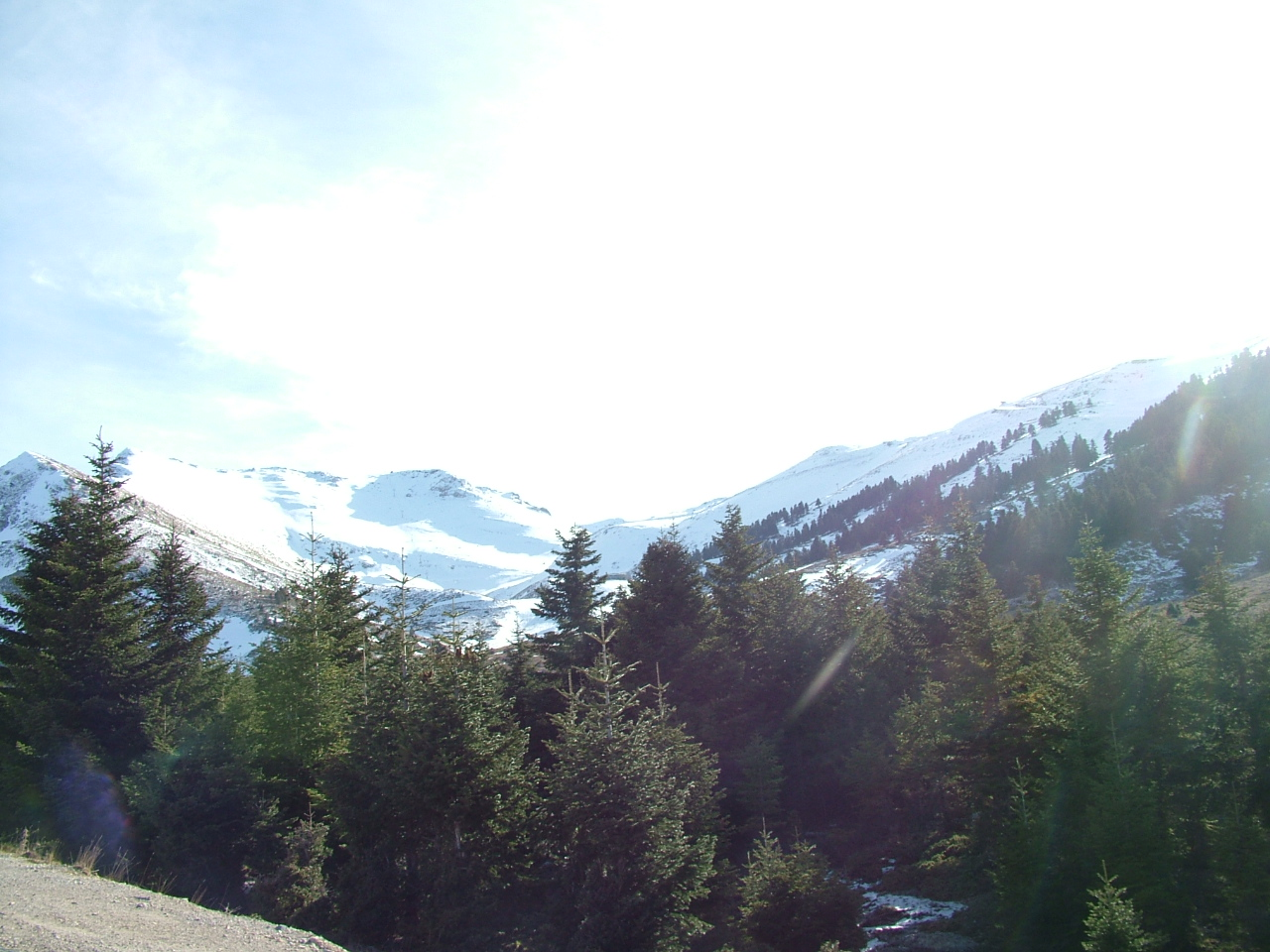 Mt.Chelmos, Kalavryta, Greece Summary Mt.Chelmos, Kalavryta, Greece